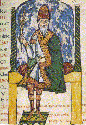 Boniface III of Tuscany, duke of Tuscany. From Donizo's manuscript Vita Mathildis.